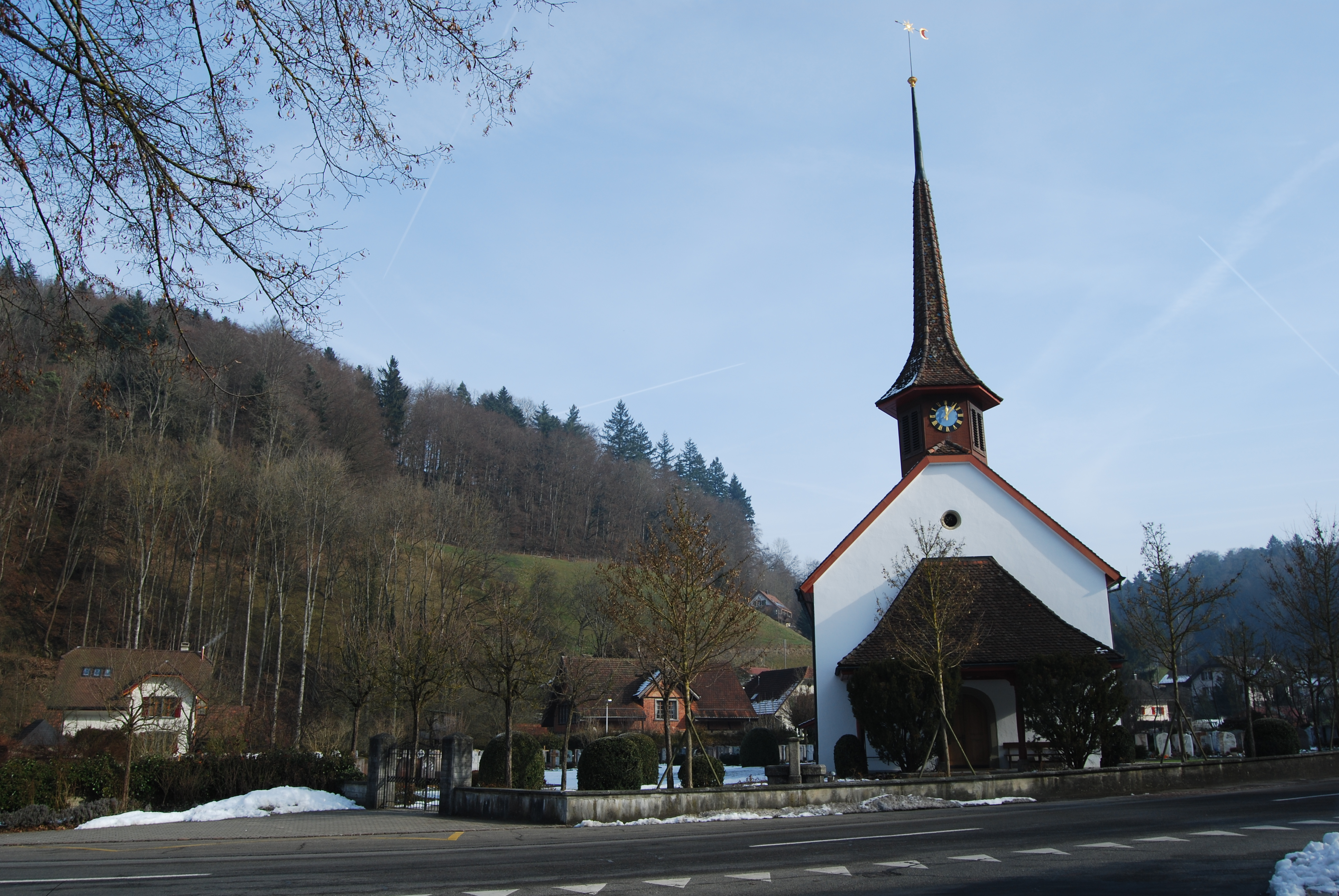 Church of Kirchrued, municipality of Schlossrued, canton of Aargau, SwitzerlandEsperanto: Preĝejo de Kirchrued, komunumo Schlossrued, Kantono Argovio, Svislando